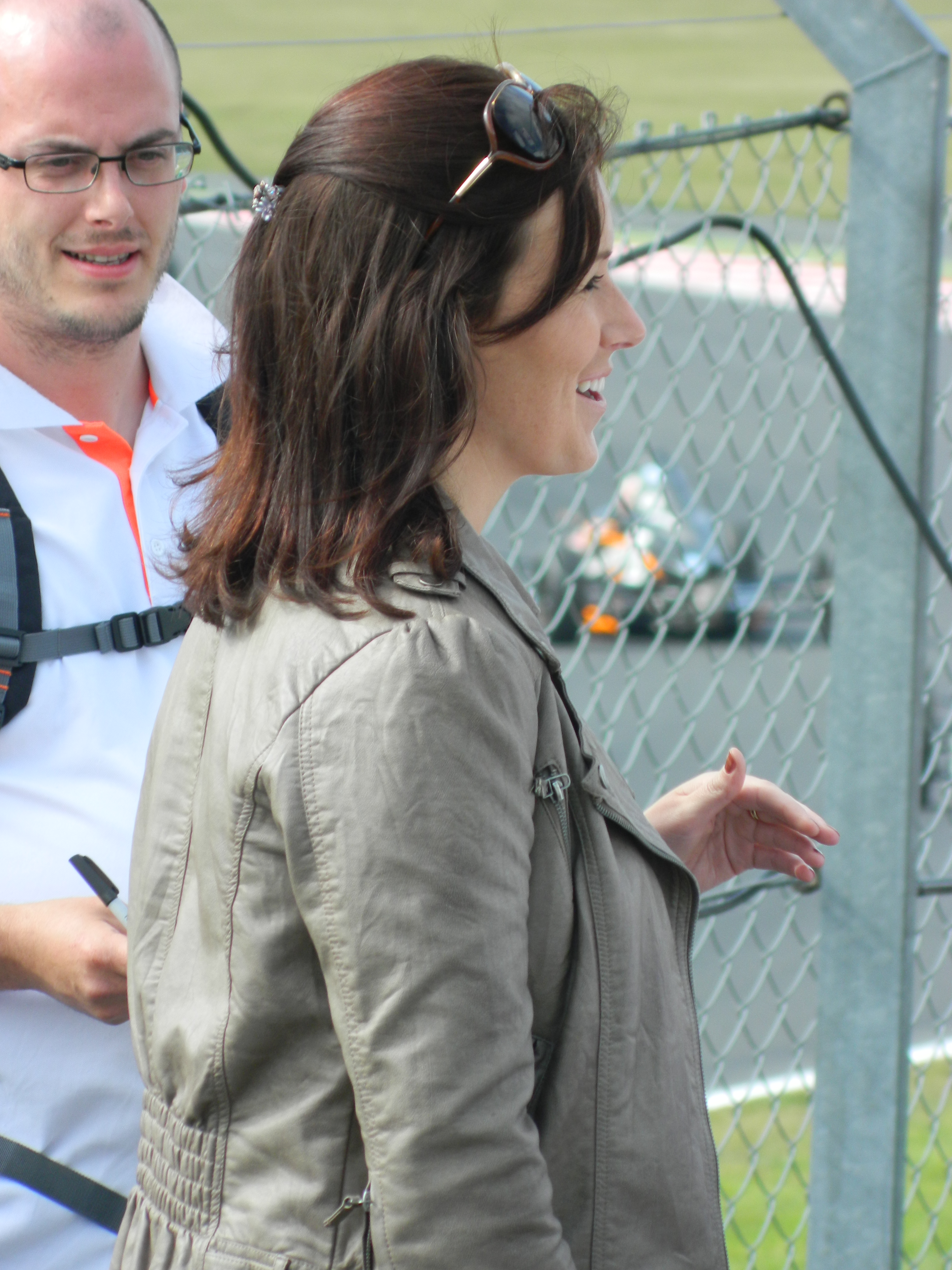 Lee McKenzie at Brands Hatch on 3rd September 2011.